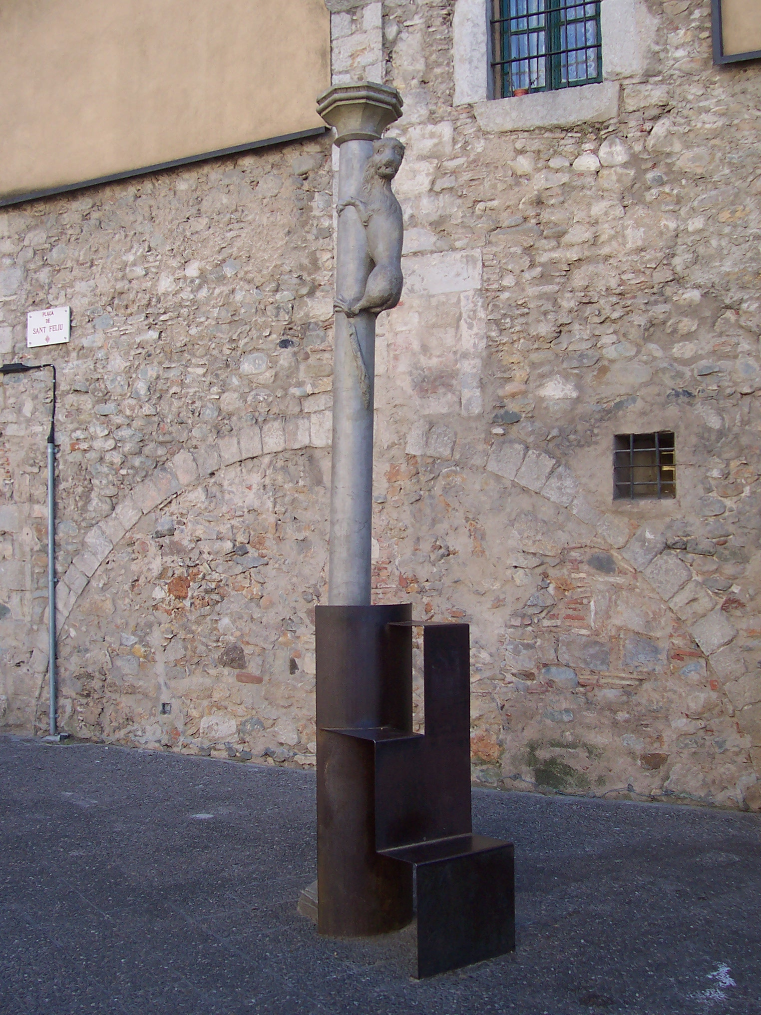 The lioness of Girona